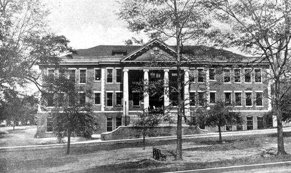 View of the front of Leon High School in 1910.